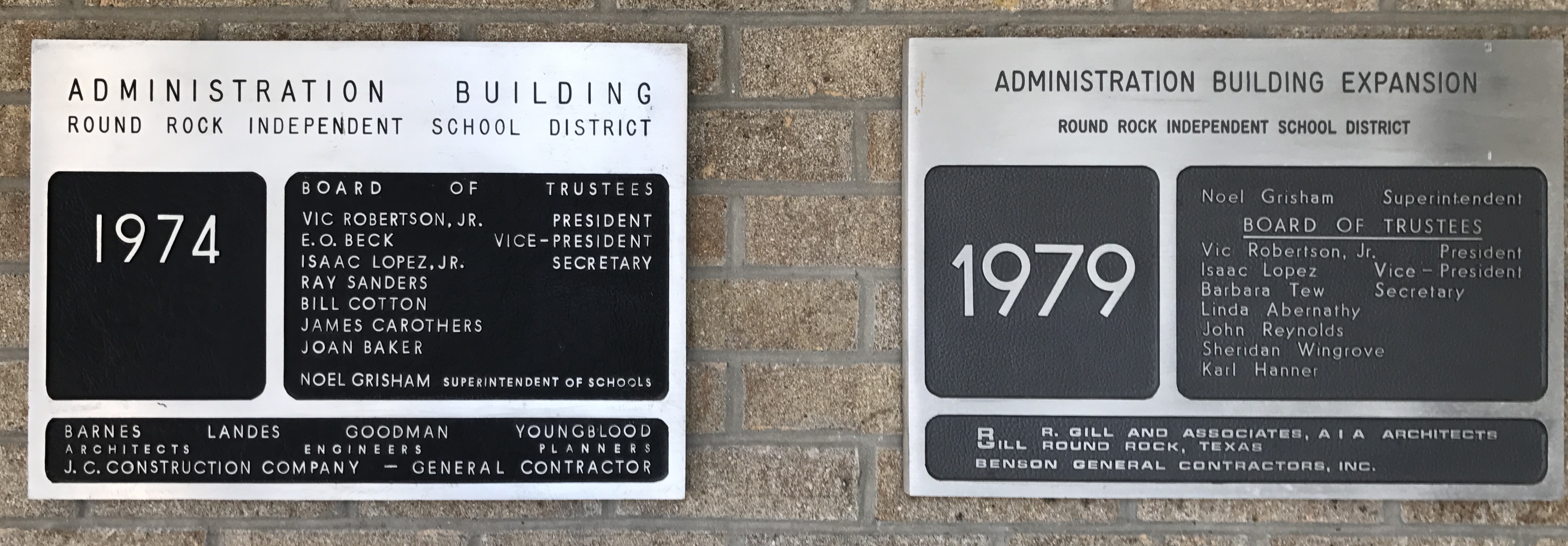 1974 - Original building construction 1979 - Expansion wing